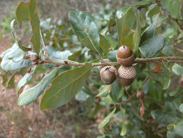 Found in Collier-Seminole State Park, Florida